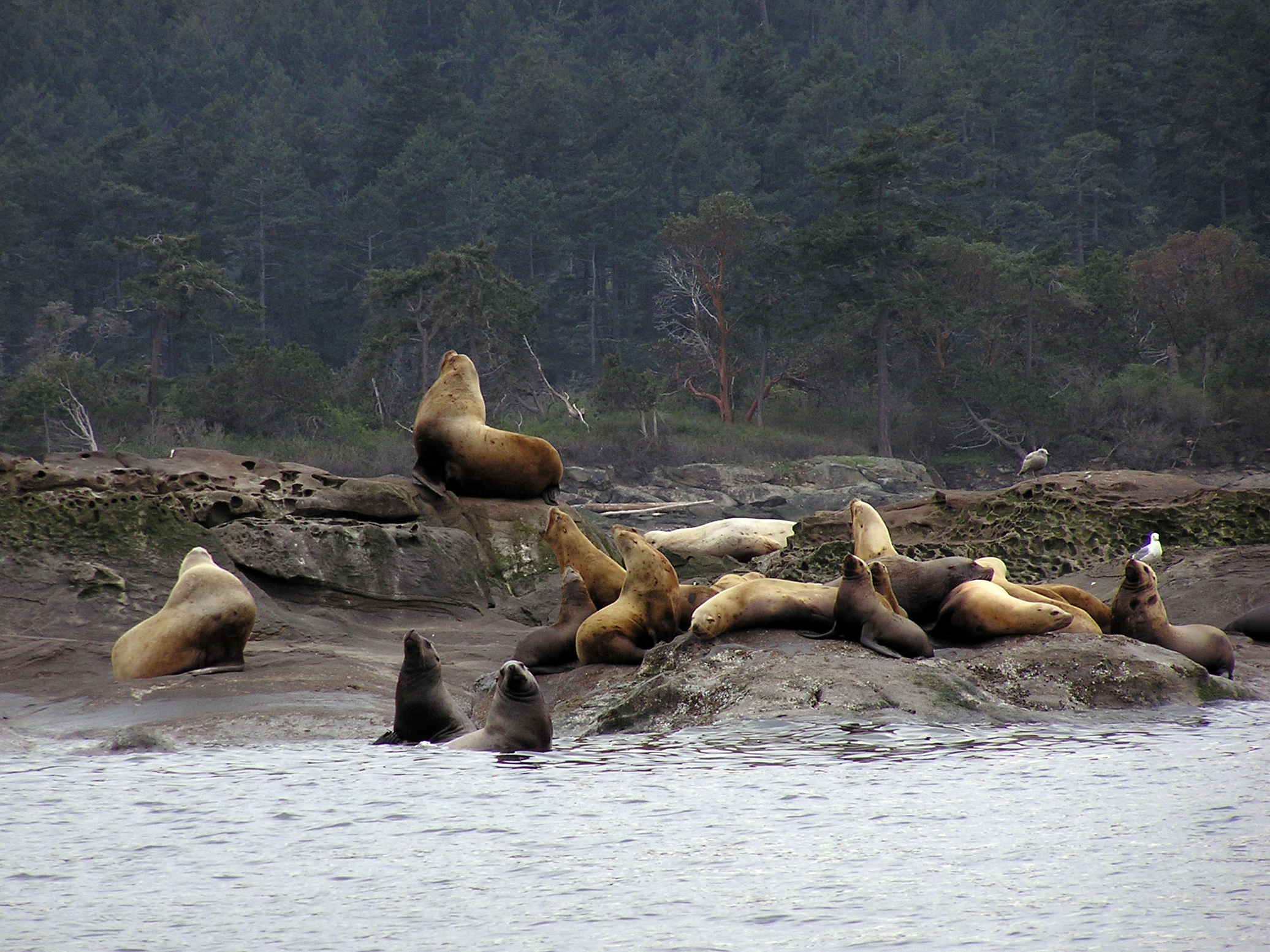 Steller Sea Lions Eumetopias jubatus, hauled out on rocks in the Southern Gulf Islands of British Columbia. The Steller Sea Lion is classified as Endangered on the IUCN Red List.